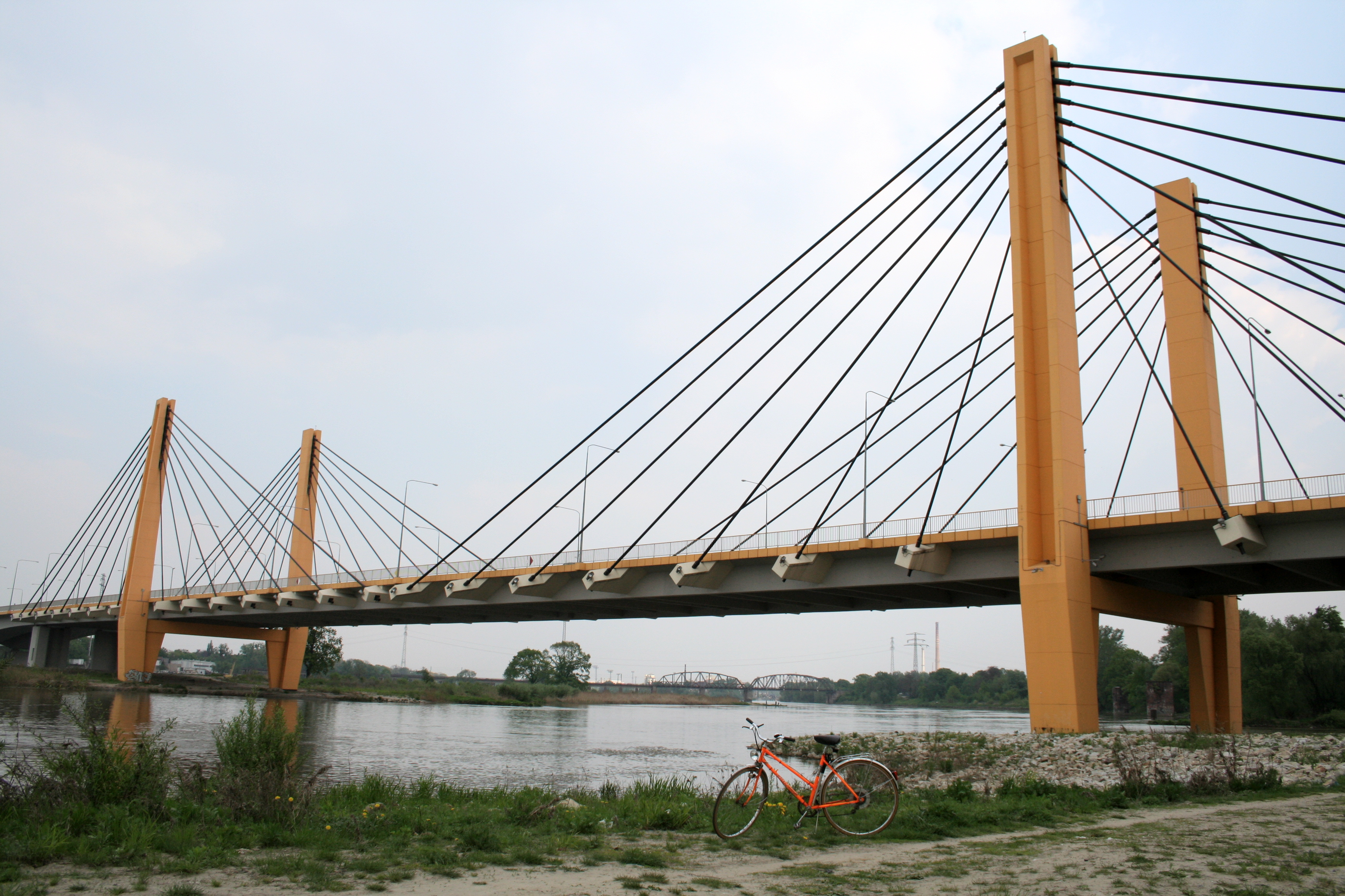 Millenium Bridge in Wrocław, Poland.